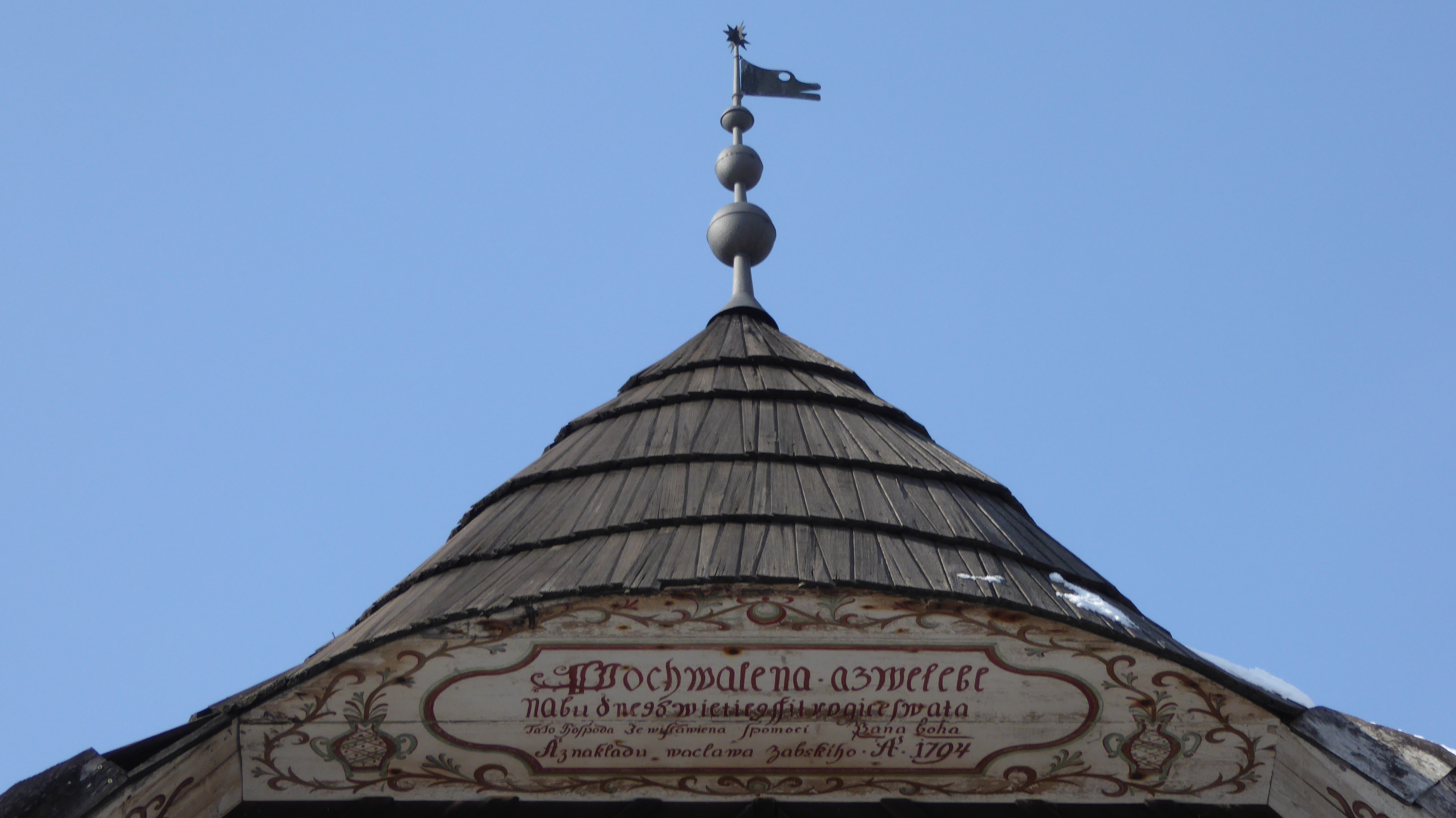 Shield with inscription at the timbered countryside pub, object in year 1794 restored. Countryside pub and cultural monument of the hamlet Svobodné Hamry, part the village of Vysočina. Photo location: Czechia, Pardubice Region, municipality Vysočina, hamlet of Svobodné Hamry, Kameničská Highlands.